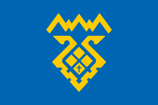 Togliatti (Samara oblast), flag